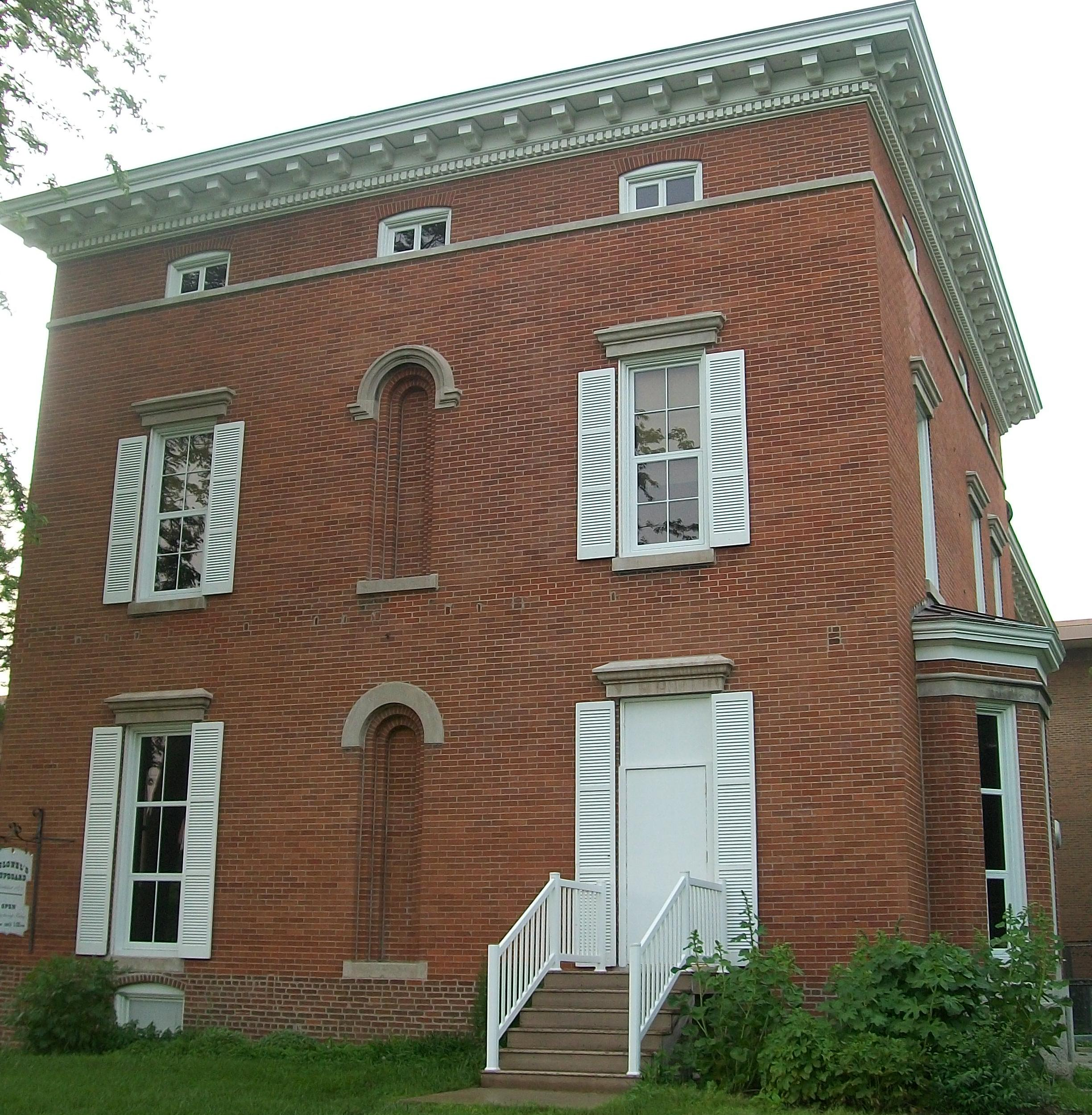 The West Residence on the campus of Arsenal Technical High School used to be the officer's quarters back when the school was a US army arsenal. It now houses the Colonel's cupboard restaurant, which is run by students. This picture is of the front of that building.